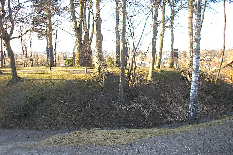 Motte-and-bailey castle Kissing (Landkreis Aichach-Friedberg, Swabia (Bavaria), Germany). The northern bailey from the south east